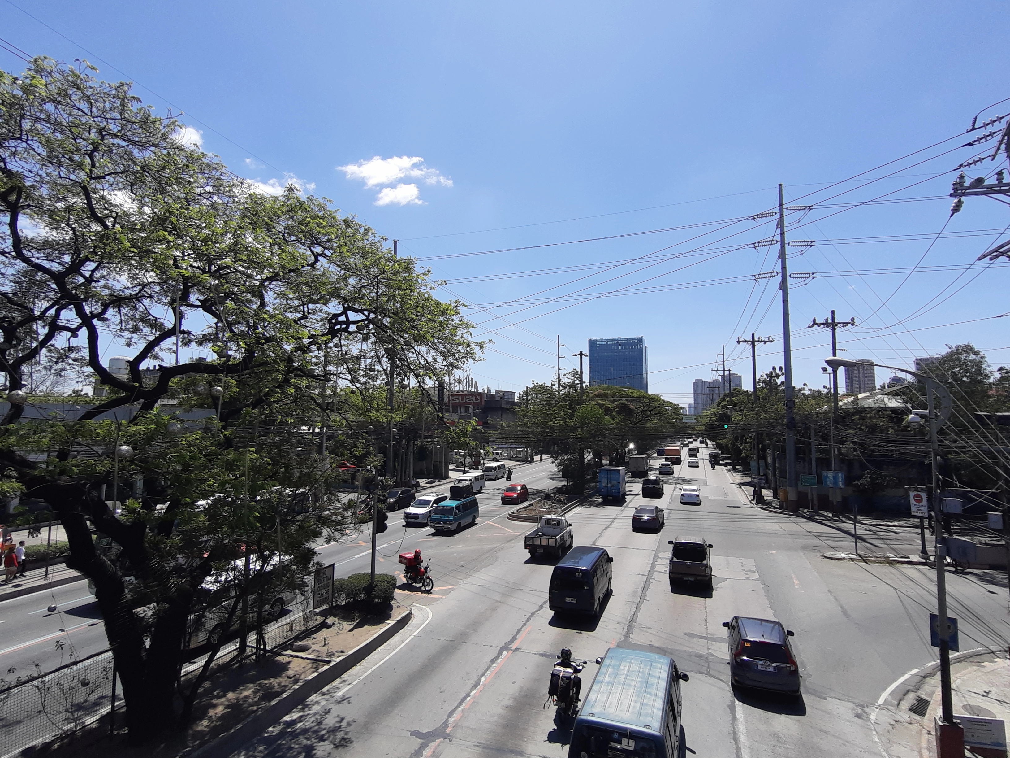 Eulogio Rodriguez Jr. Avenue (C-5 Road) view southbound towards Arcovia City from Julia Vargas Avenue footbridge